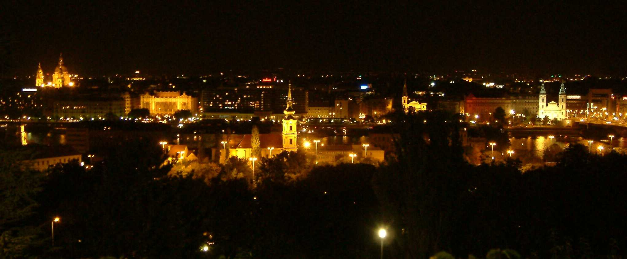 Panorama, night, Budapest, Naphegy, Danube